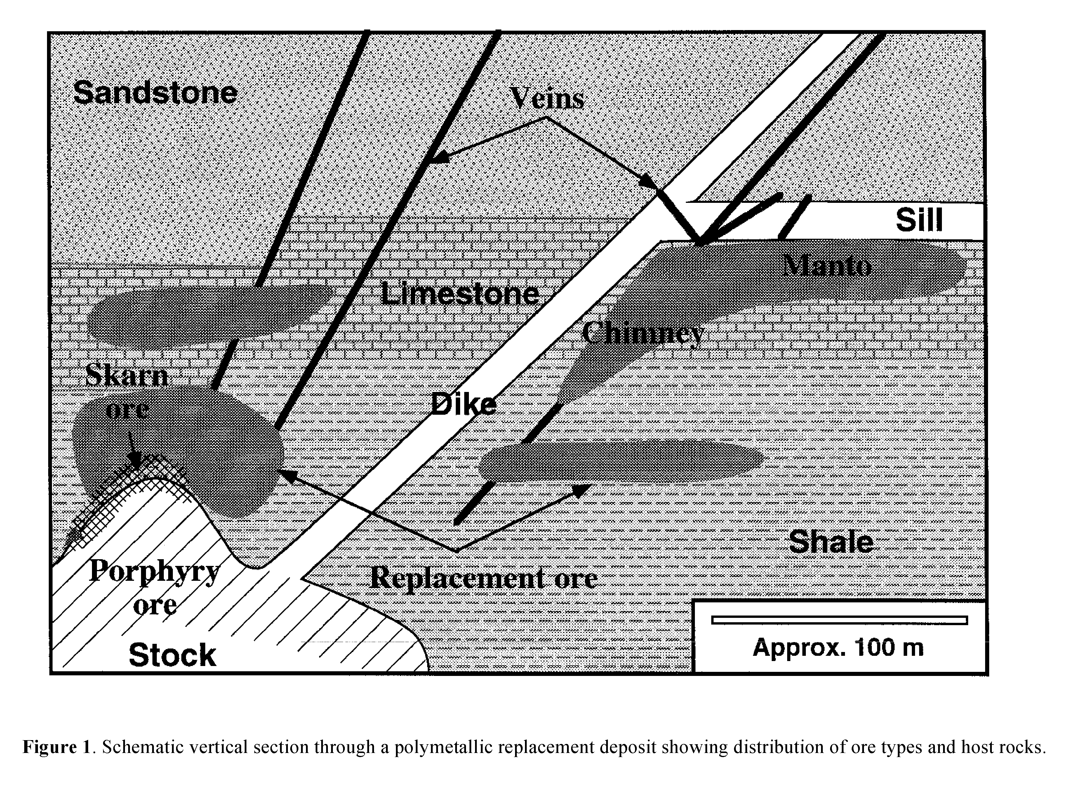 Schematic cross-section showing manto ore deposits